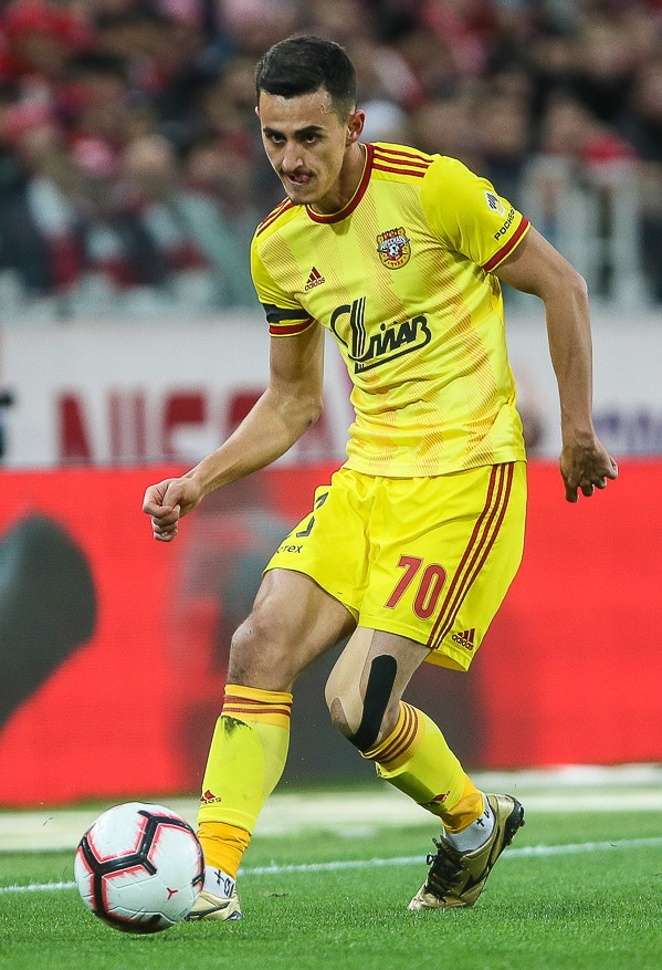 Georgi Kostadinov with FC Arsenal Tula in a game against FC Spartak Moscow.